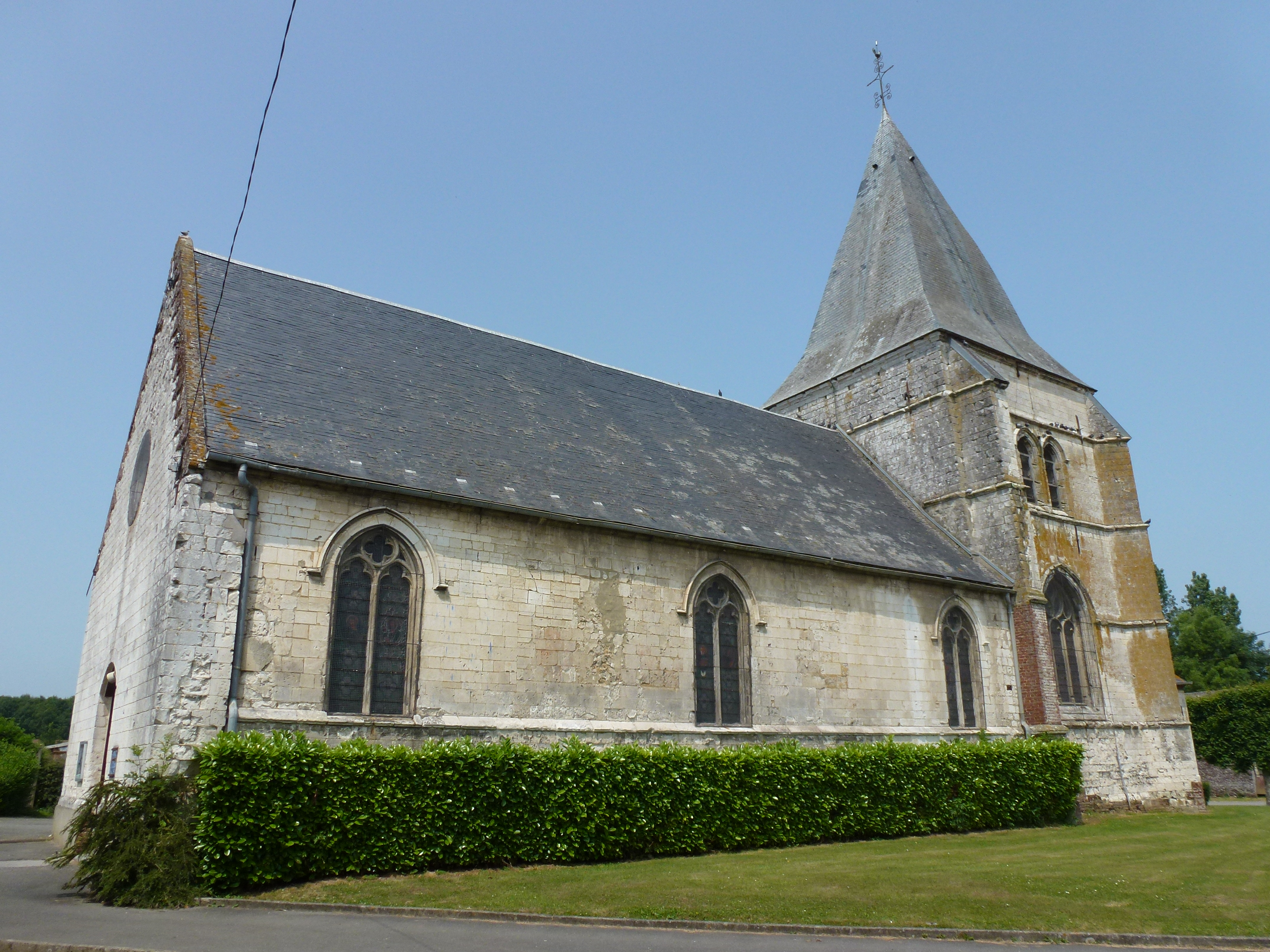 Coyecques (Pas-de-Calais) église Saint-Pierre-ès-Liens